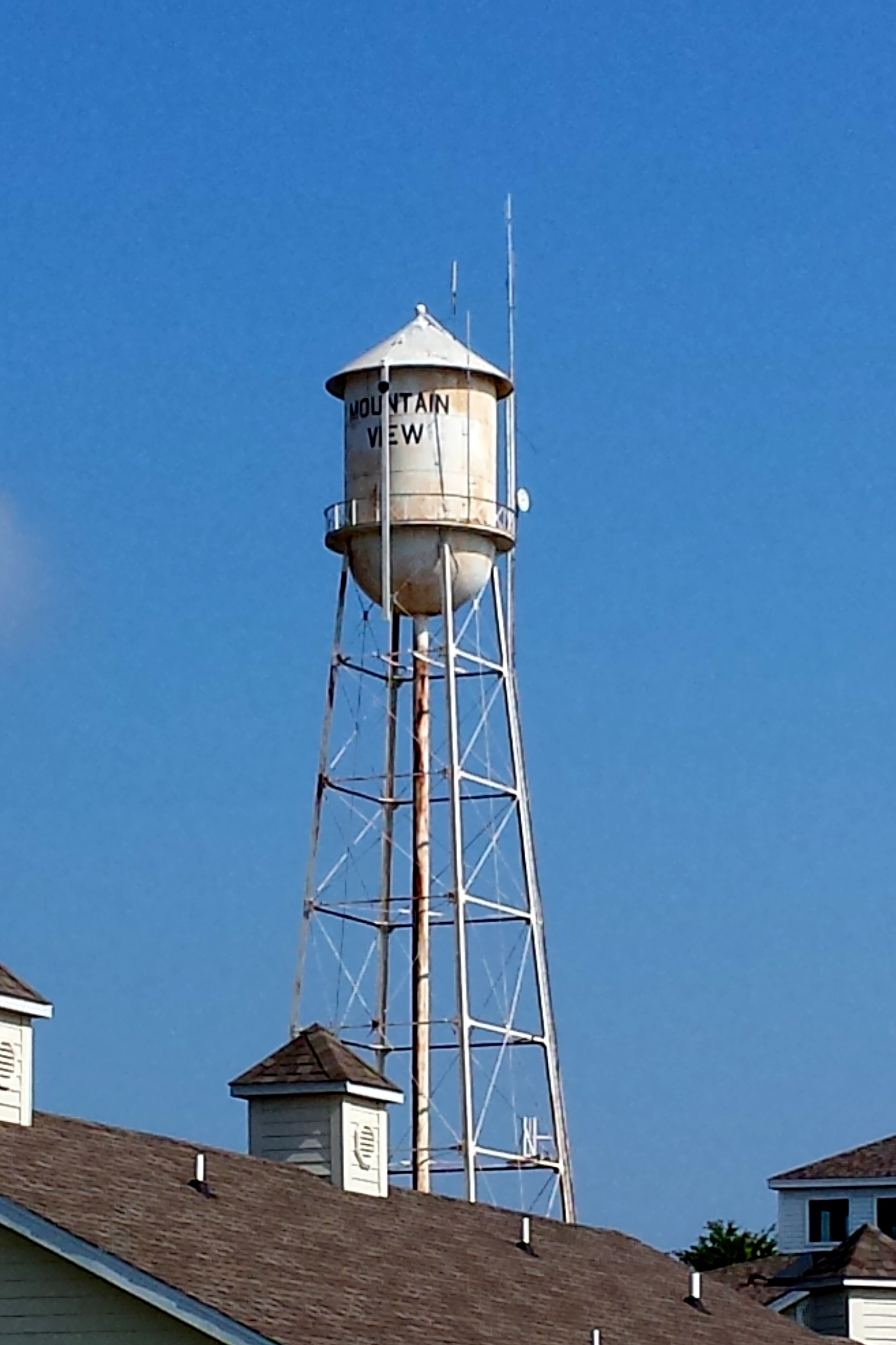 Water tower viewed from downtown